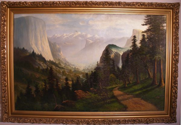 Yosemite Valley - 1908 Oil painting by Joseph John Englehart signed C.N. Doughty (Cole)